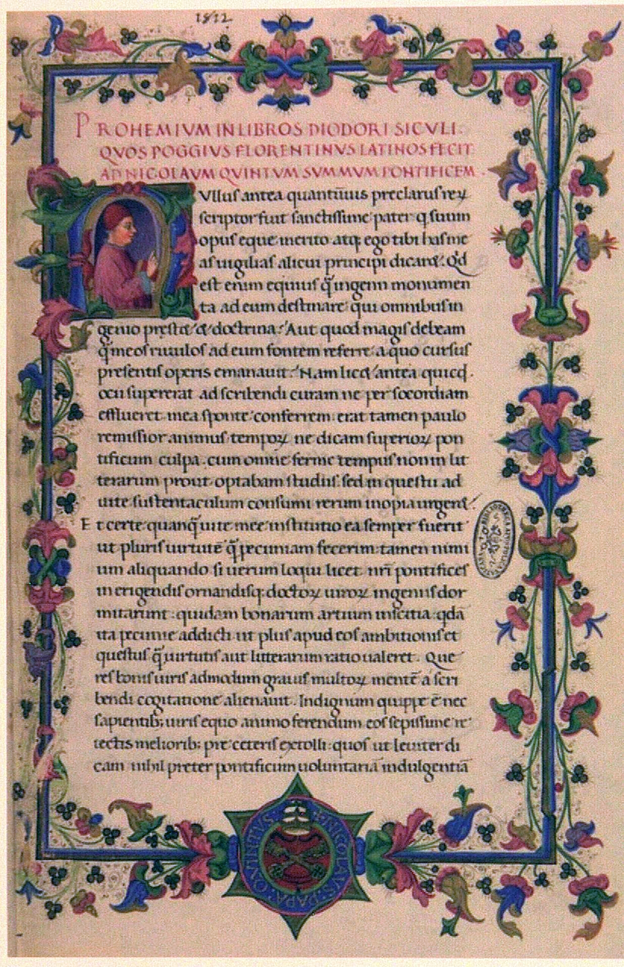 Poggio Bracciolini’s preface to his Latin translation of Diodorus Siculus’ Bibliotheca historica in the dedication copy for Pope Nicholas V, the manuscript Vatican City, Biblioteca Apostolica Vaticana, Vat. lat. 1812, fol. 1r.